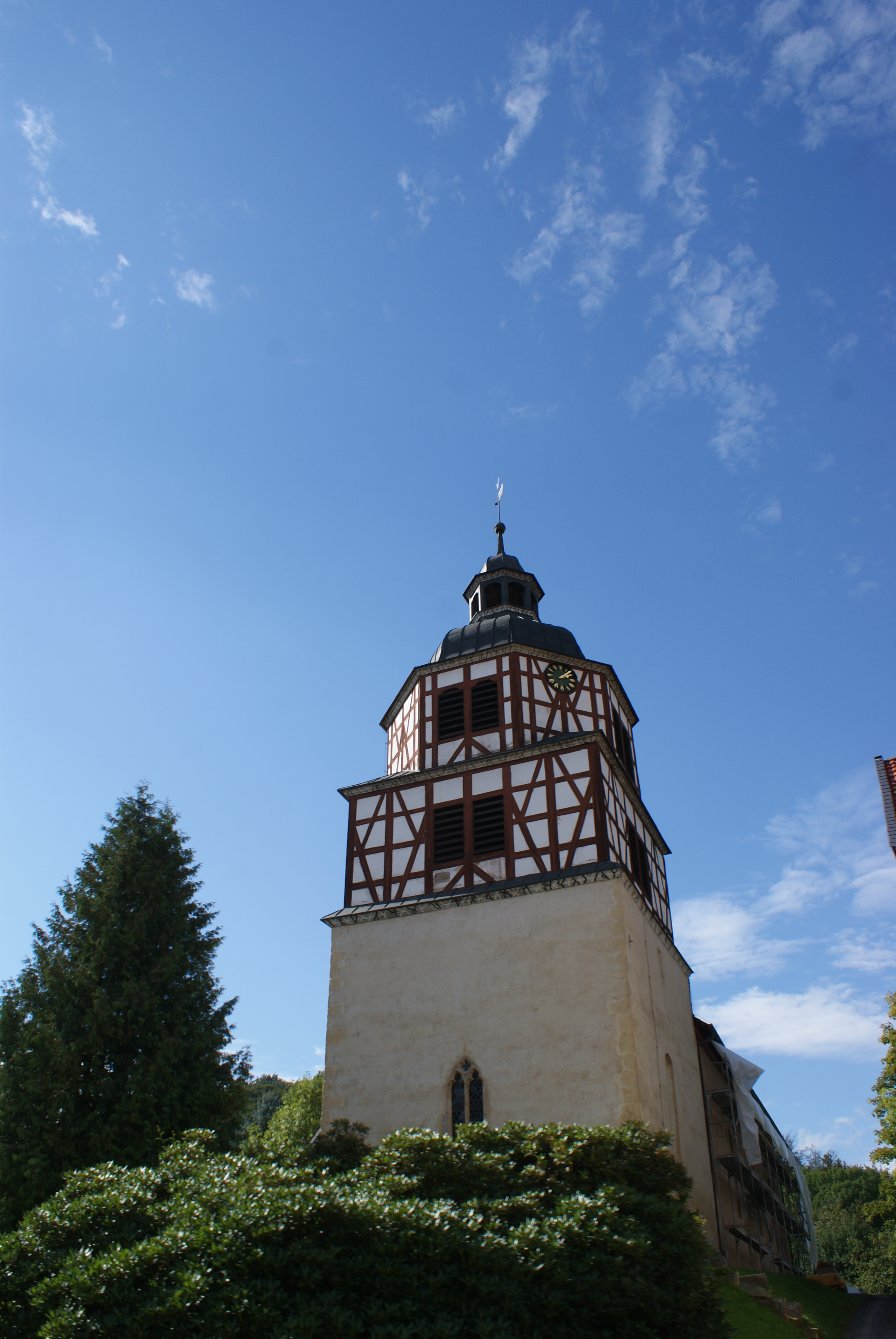 tower church Sulzhayn